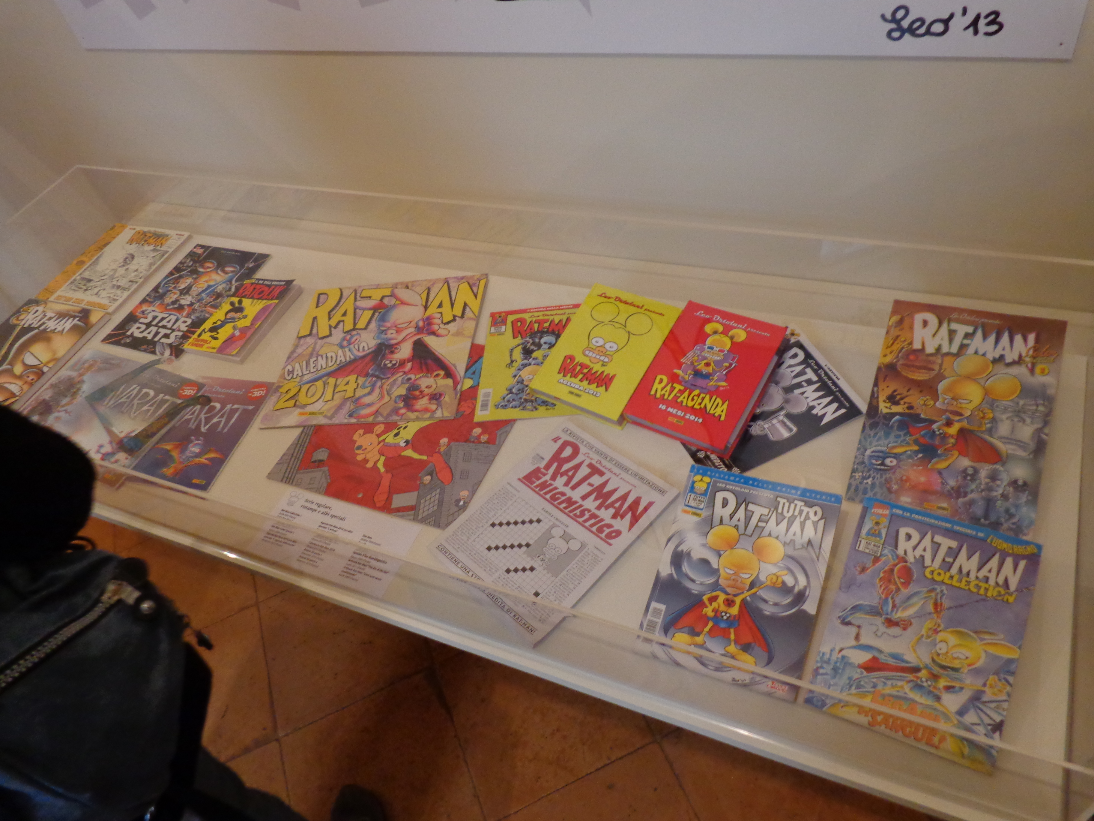 2014 Rat-Con in Parma (celebrations for the 100th issue of the comic Rat-Man)